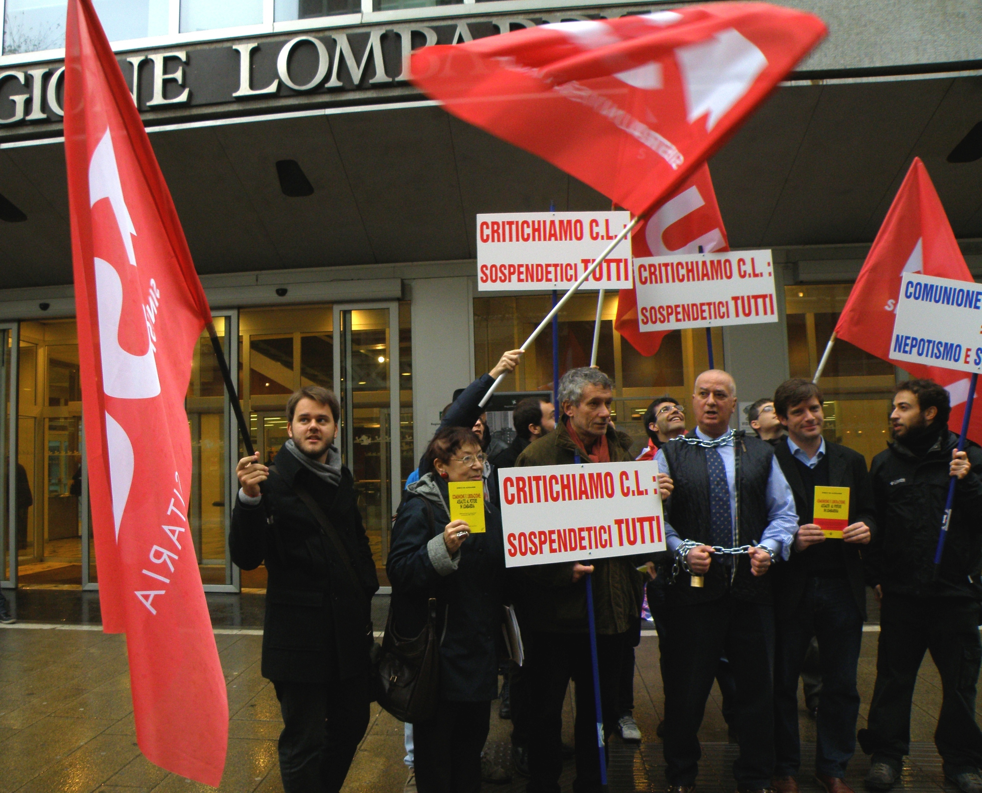 The Regione Lombardia's officer Dr. Enrico De Alessandri in chains in front of the Regione's building in Milano, Italy. De Alessandri is remonstrating against his disciplinary suspension put into effect by the Regione Lombardia and against Communion and Liberation 's power in public institutions.